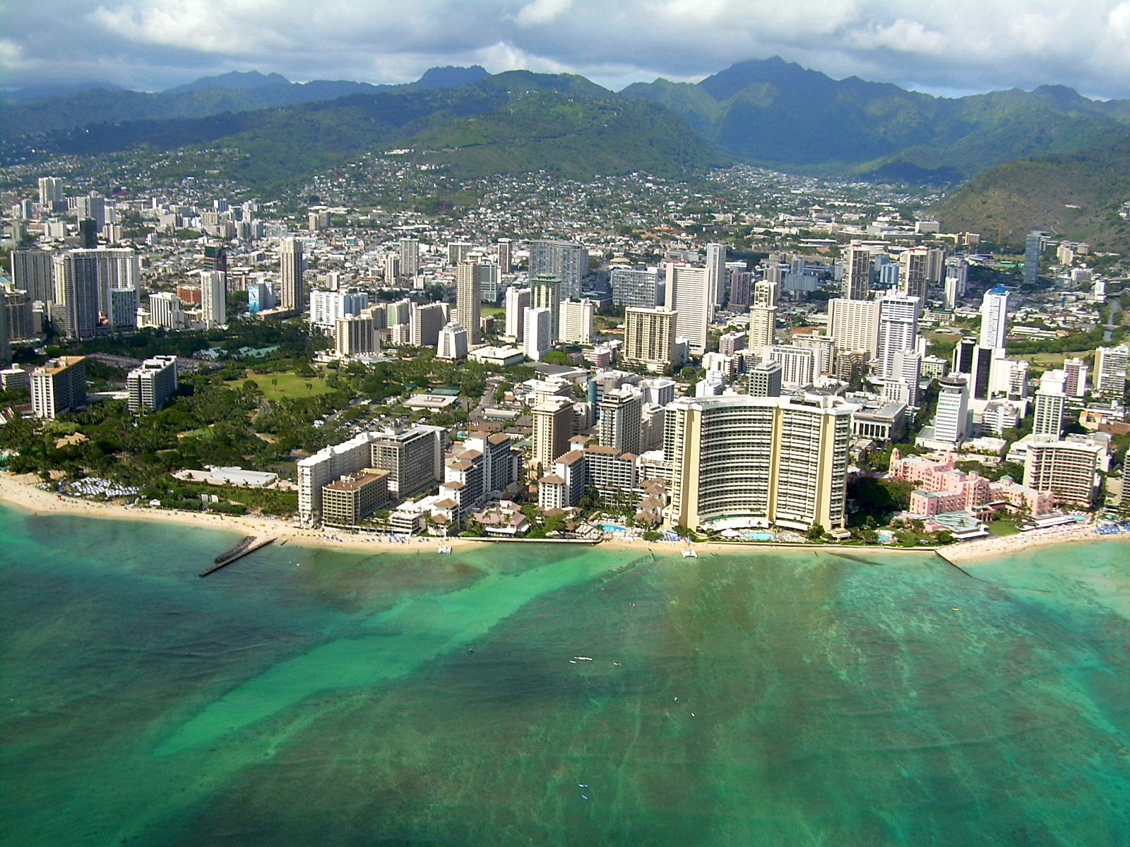 View of Waikiki Beach area hotels. Halekulani is in the center, to the left of the large curved building (Hotel Sheraton).